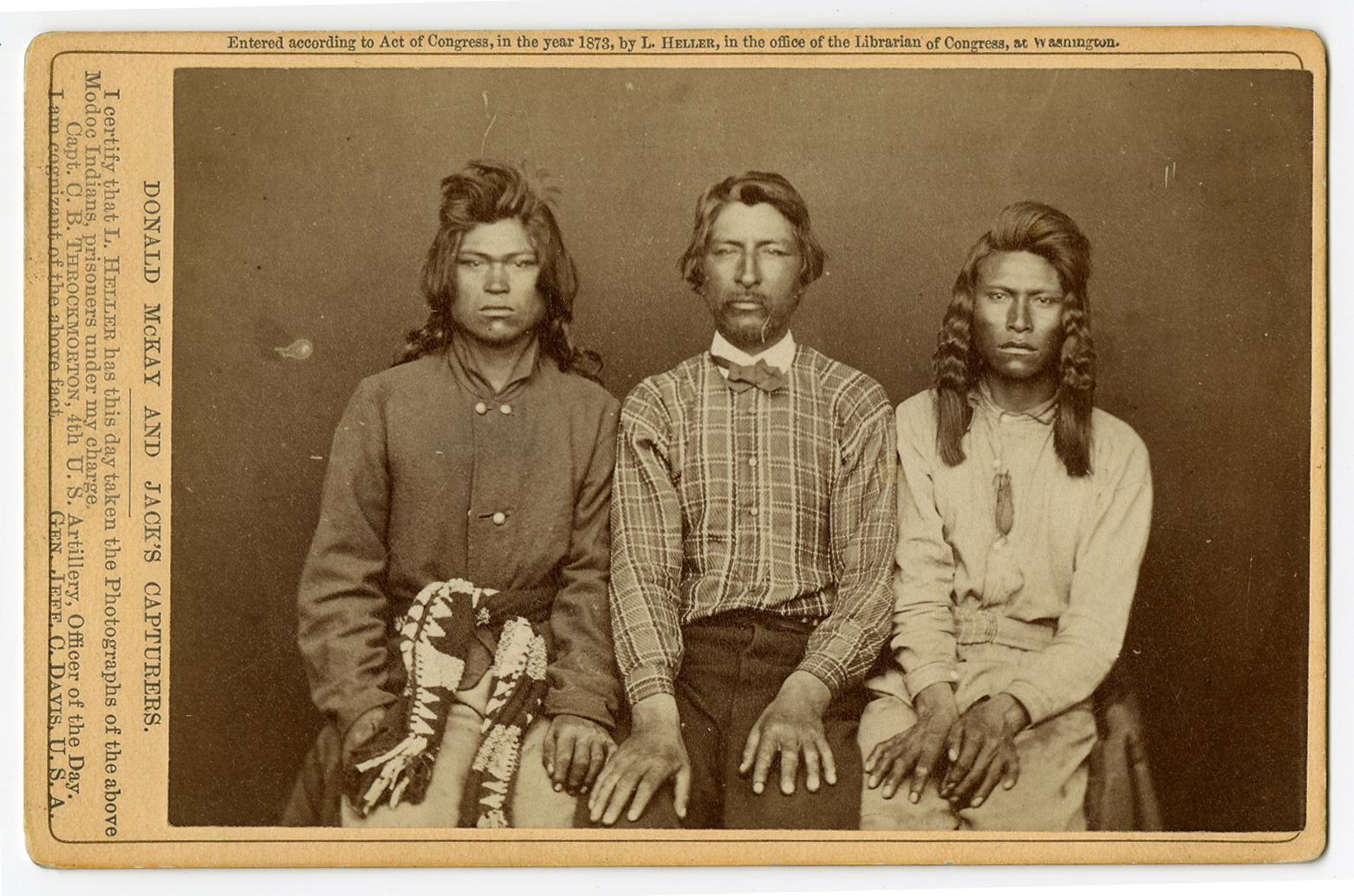 Repository: California Historical Society Collection: Photographic portraits of Modoc Indians of the Modoc War Photographer: Heller, Louis Herman Date: 1873 General note: Printed on mounts: I certify that L. Heller has this day taken the photographs of the above Modoc Indian prisoner under my charge. Capt. C.B. Throckmorton, 4th U.S. Artillery, Officer of the Day. I am cognizant of the above fact. Gen. Jeff. C. Davis, U.S.A. General note: Photos were published by Carleton E. Watkins. Watkins' Yosemite Art Gallery advertisement on verso. Format: Carte de visite Call Number: PC 006 Digital object ID: PC 006_15.jpg Preferred citation: Donald McKay and Jack’s capturers, Photographic portraits of Modoc Indians of the Modoc War, PC 006, courtesy, California Historical Society, PC 006_15.jpg